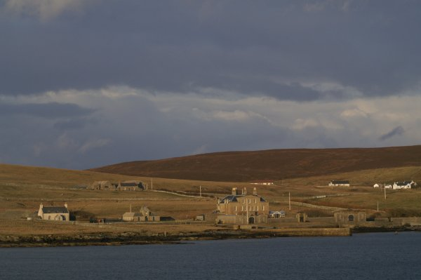 Gardie House on Bressay, Shetland, Scotland